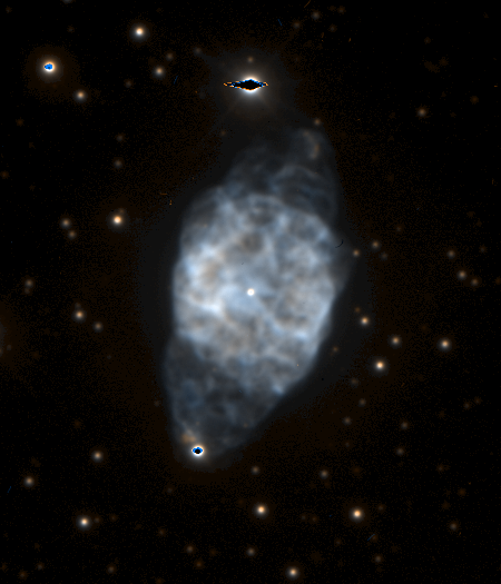 Based on observations made with ESO Telescopes at the La Silla Paranal Observatory under programme ID 088.D-0514(A)